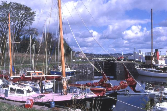 Crinan Canal Basin. This is the eastern end of the Crinan Canal, which saves vessels a long journey round the Mull of Kintyre.